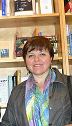 Mexican poet Elsa Cross.